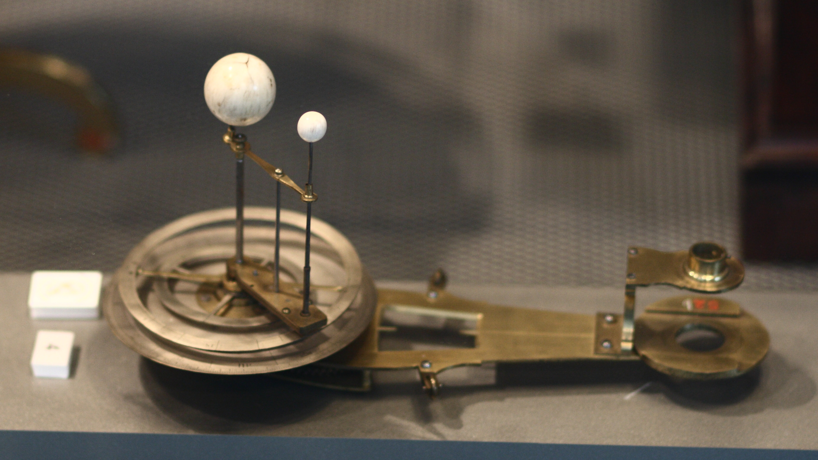 OpenStreetMap(Info) A tellurian made by Benjamin Martin in London in 1766, used by John Winthrop to teach astronomy at Harvard, on display at the Putnam Gallery in the Harvard Science Center